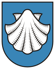 Coat of arms of Mainz-Kastel, Germany